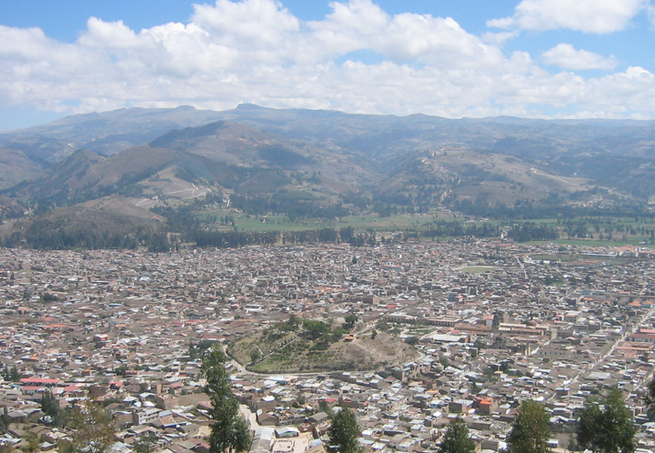 Aerial view of Cajamarca, Peru